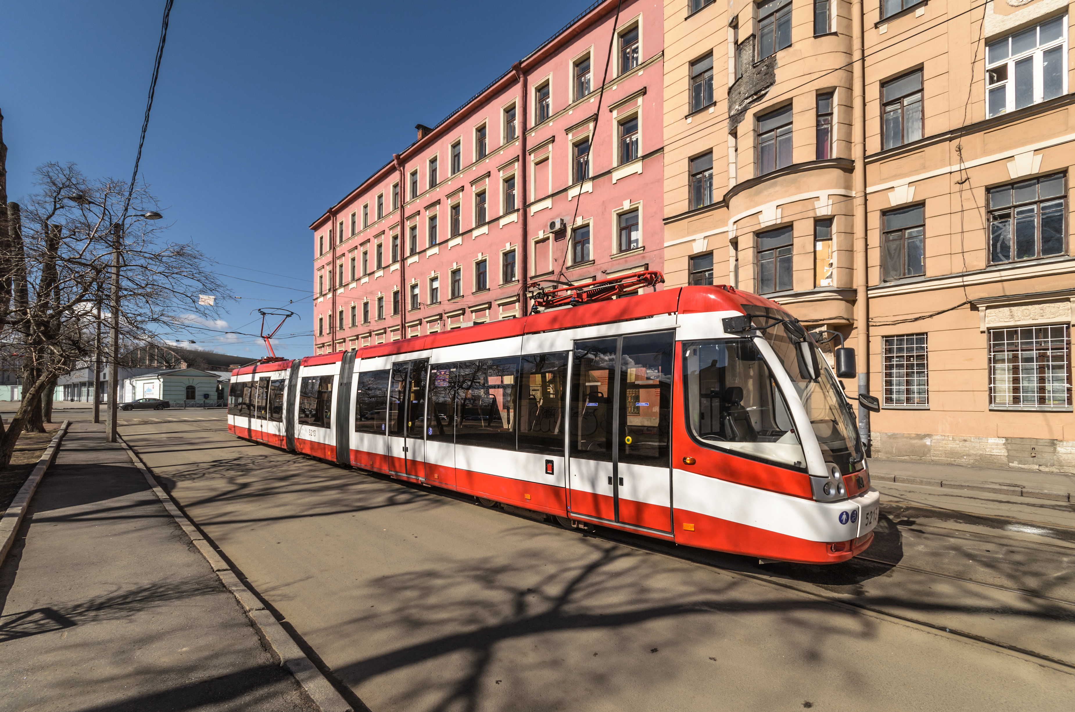 Tram BKM-84300M (AKSM-843) on Repina Square in Saint Petersburg